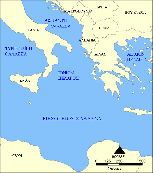 Map of the Ionian Sea in Greek language